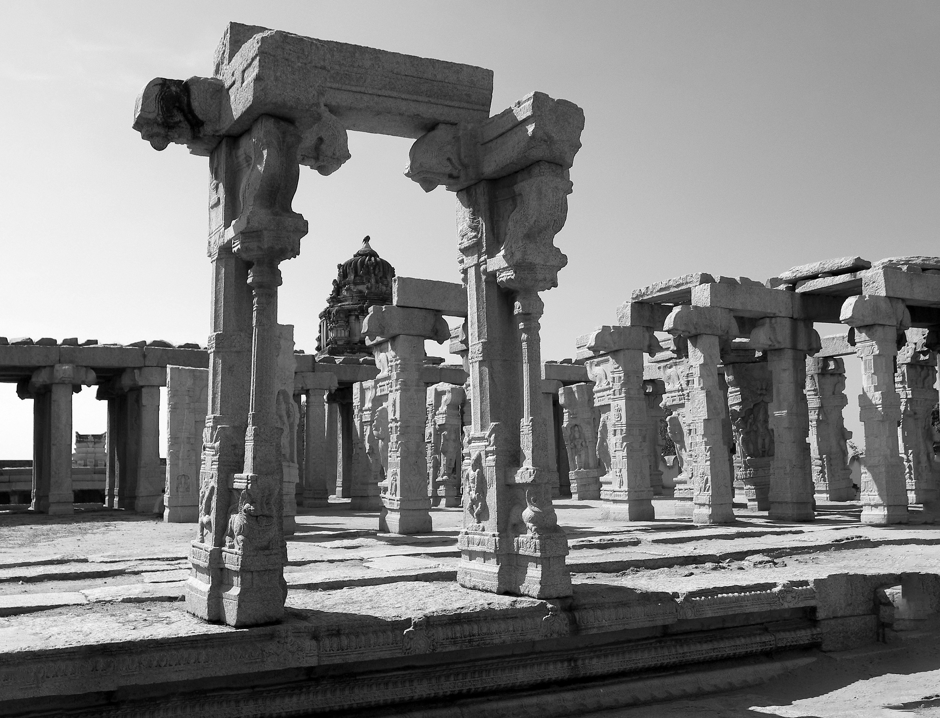 Rajesh Dangi, Nov 2007, Lepakshi, "Kalyan Mantap (B/w)